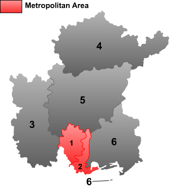 Map of Maoming in Guangdong province.